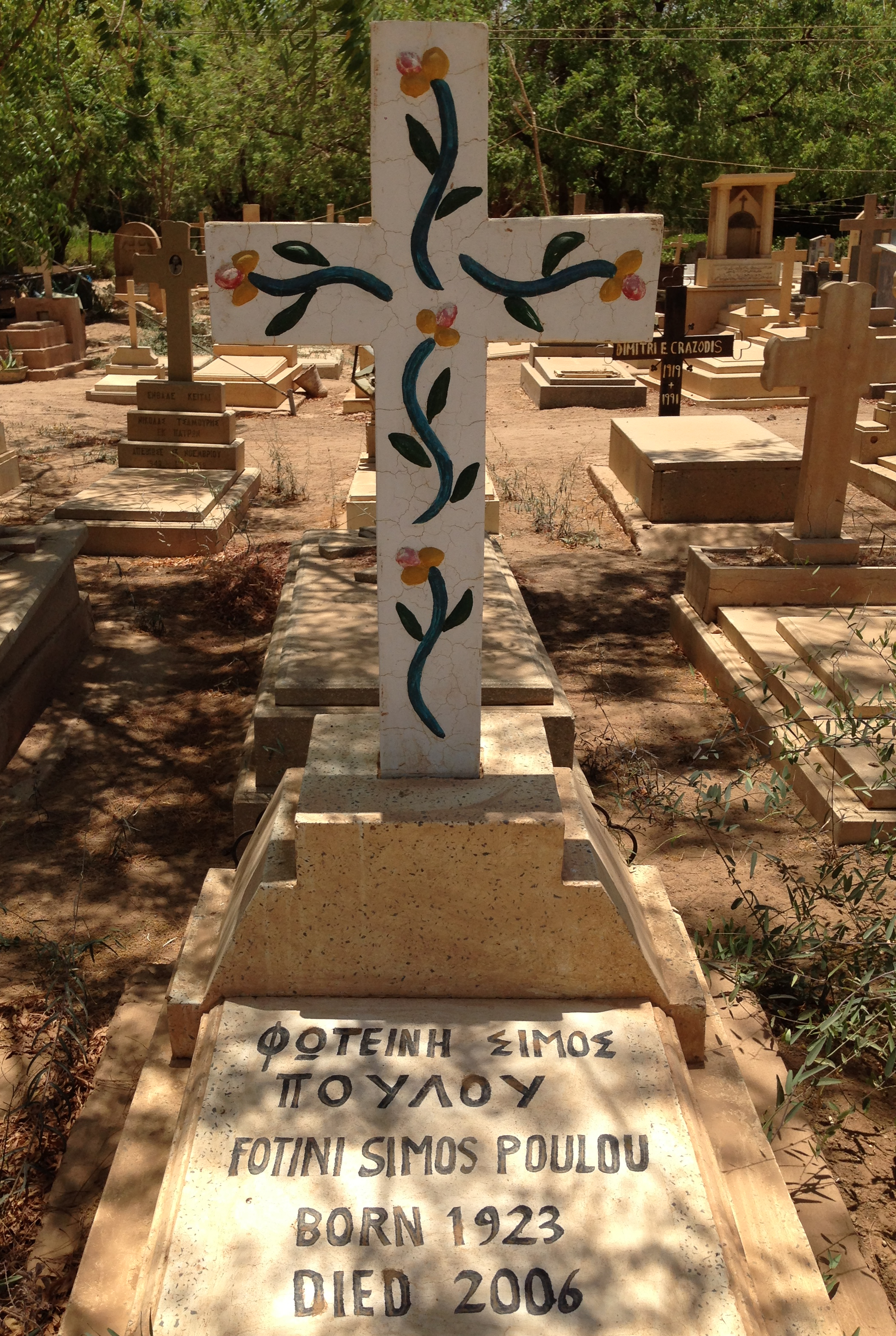 Grave of Fotini Simos Poulou / ΦΩΤΕΙΝΗ ΣΙΜΟΣ ΠΟΥΛΟΥ (1923-2006) in Khartoum, Sudan